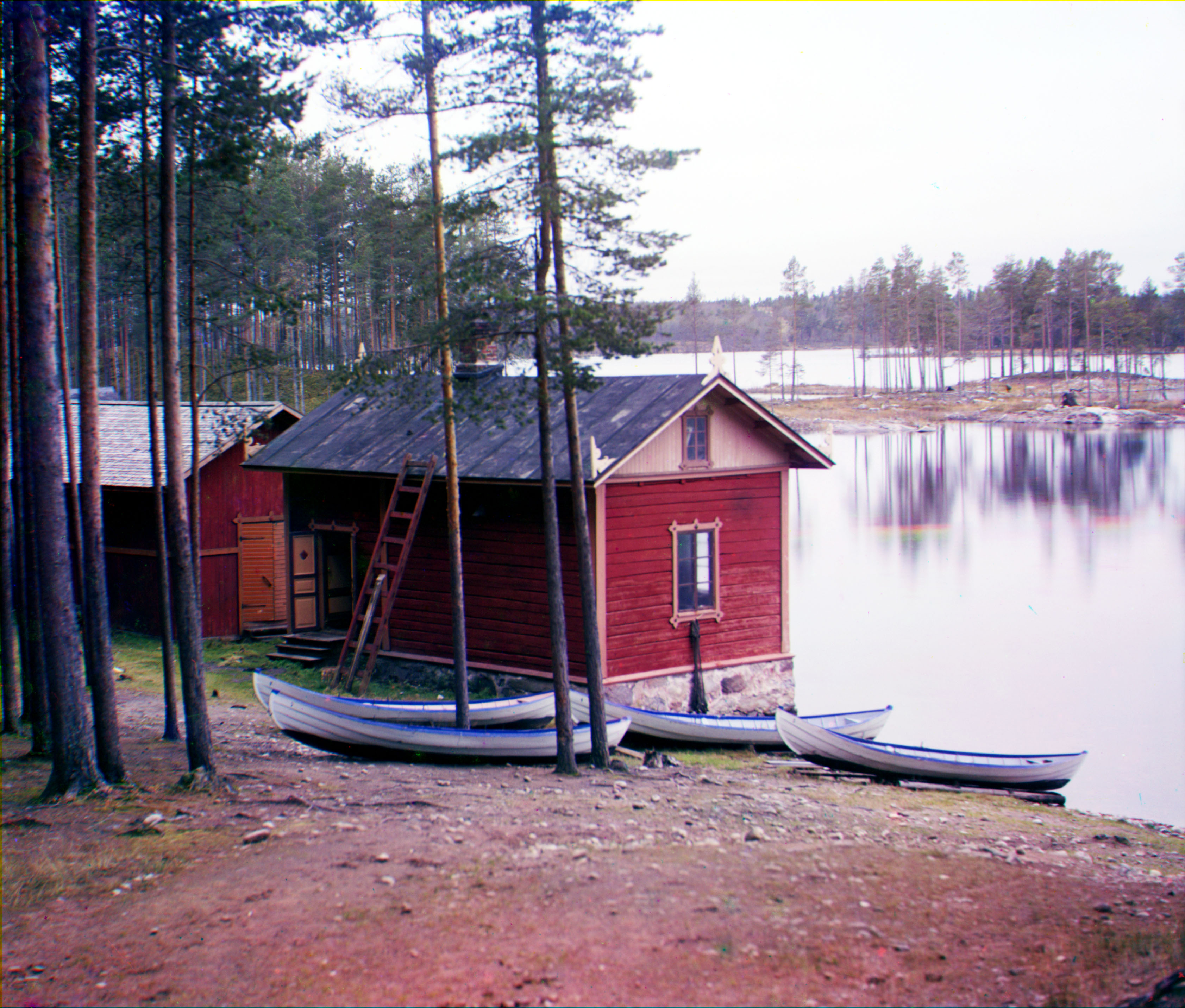 On the Saimaa Lake, Finland